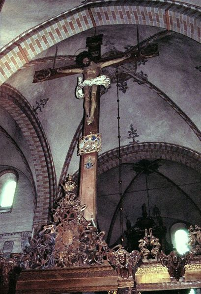 Sorø Klosterkirke. Crucifix made by Claus Berg.